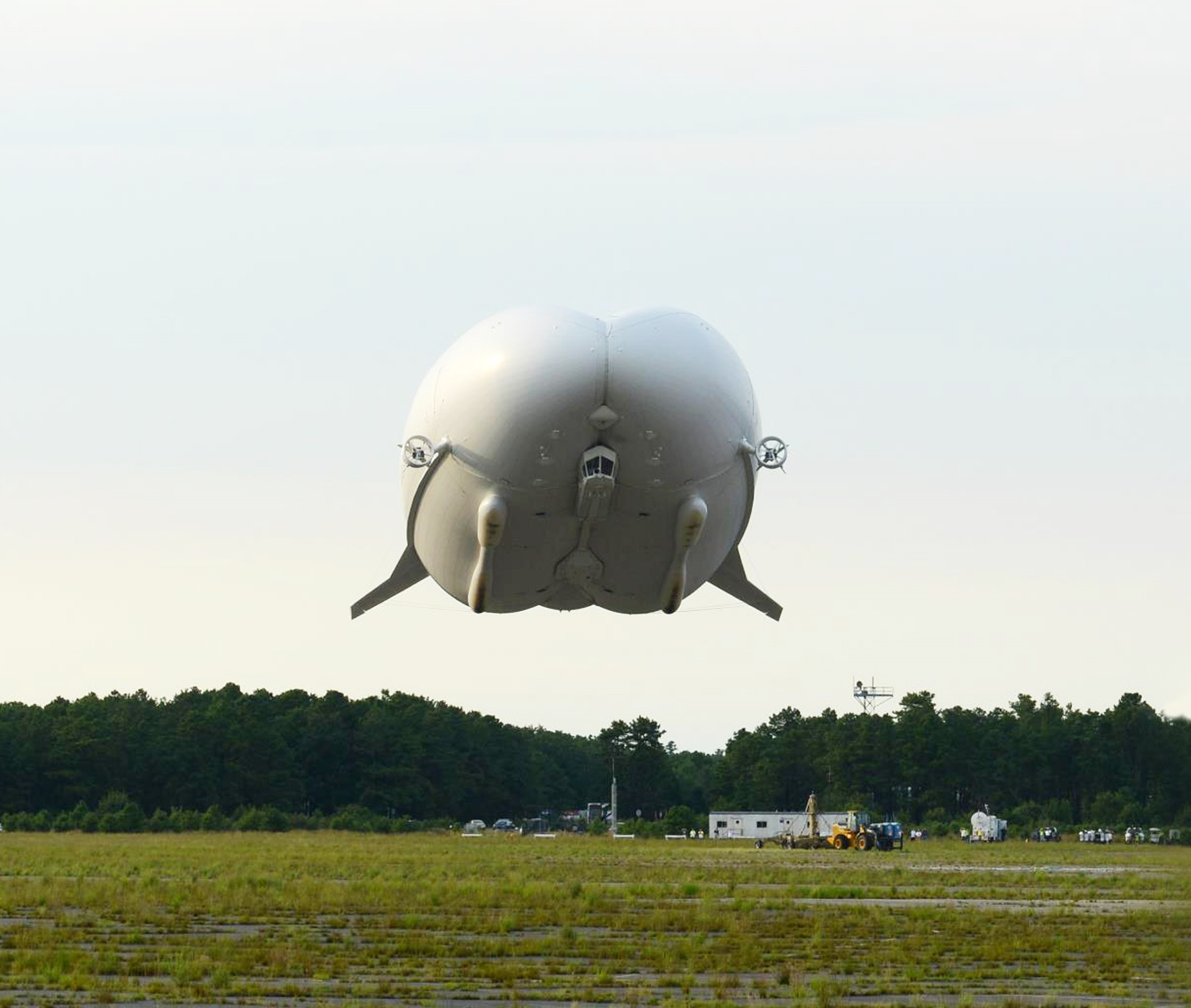 Airlander - Flight Take-off Front